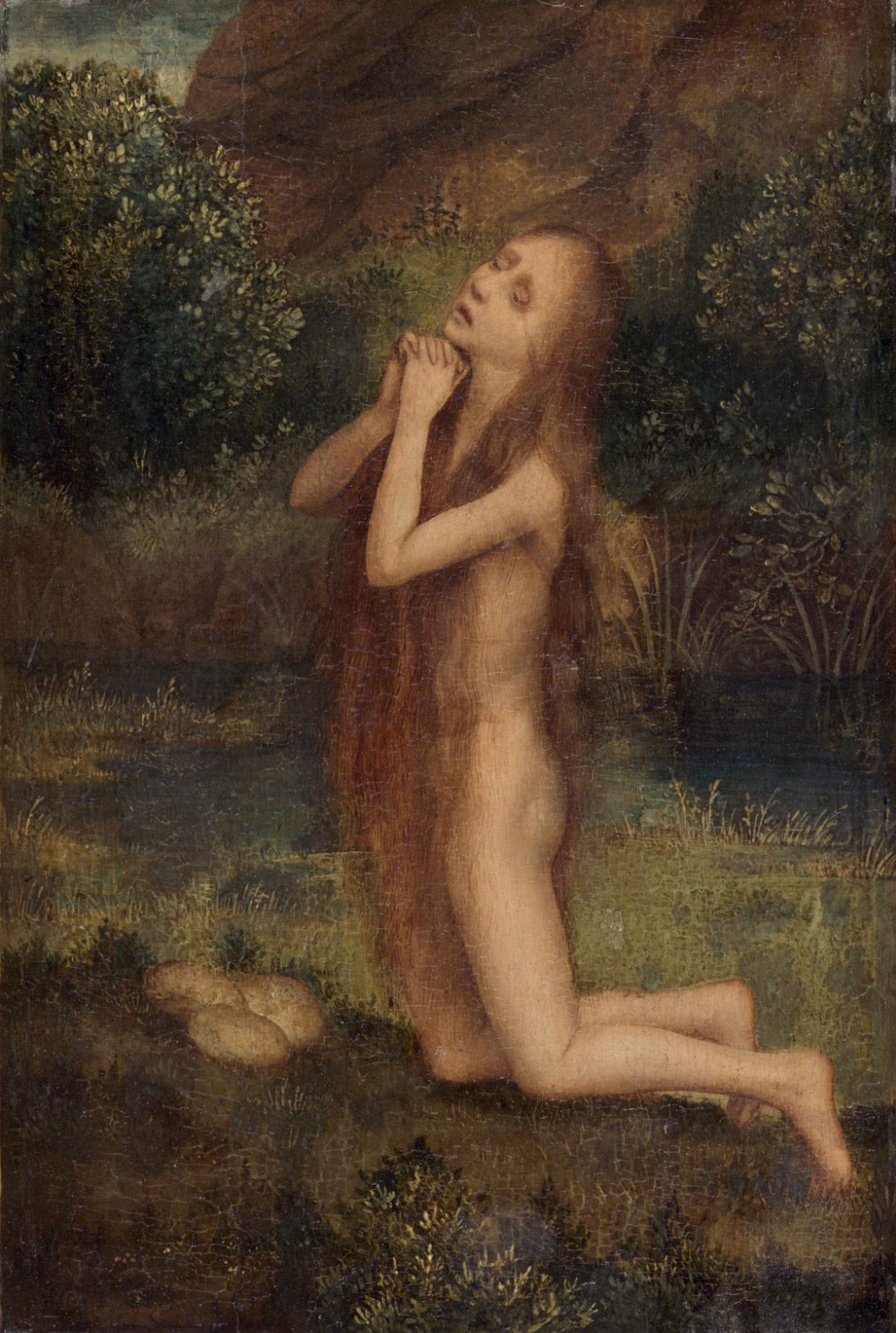 Saint Mary of Egypt, Oil on panel, Philadelphia Museum of Art